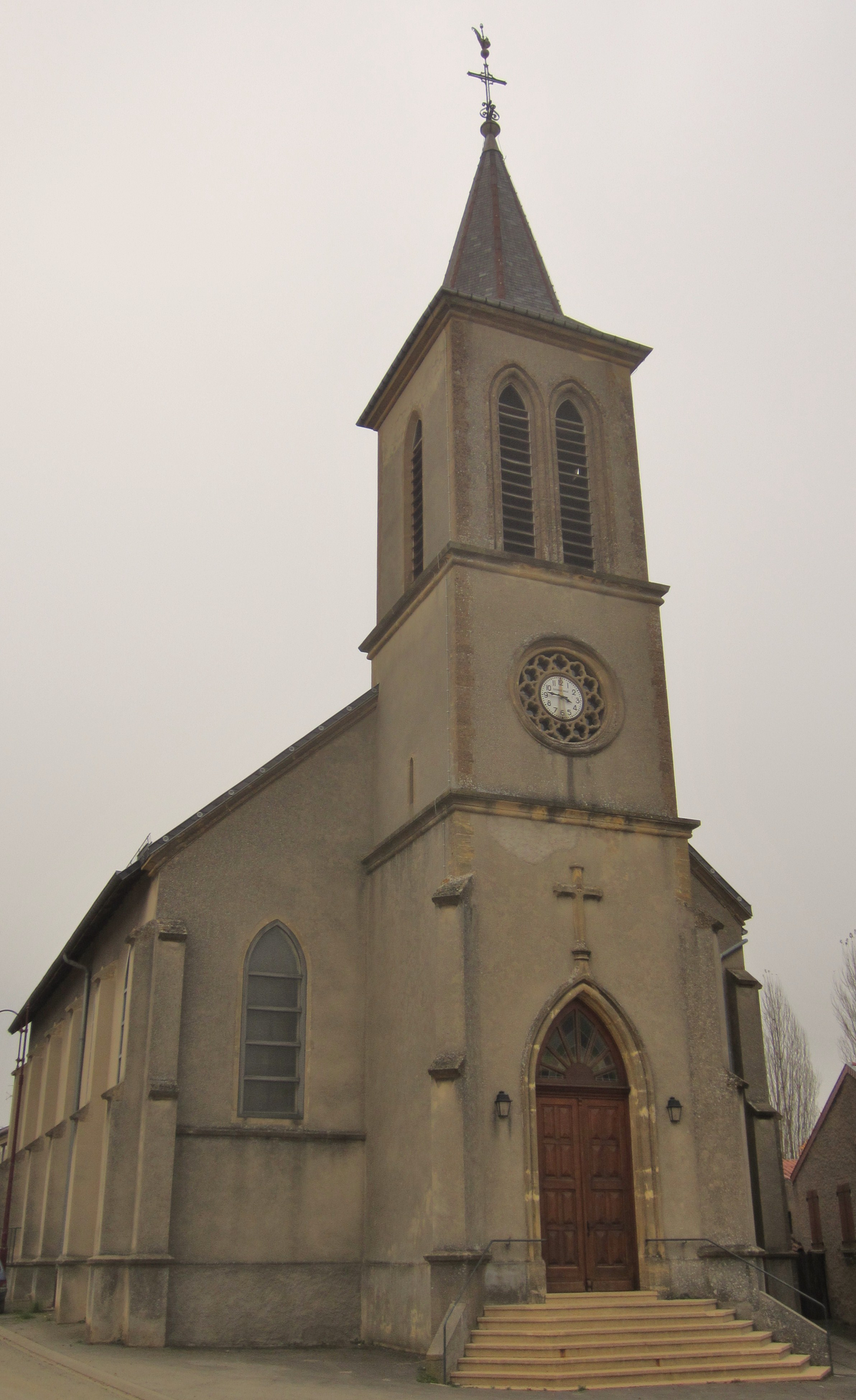 Description Église Saint-Nicolas à Garche (Thionville) Date14 November 2011Sourcemon appareil photoAuthorAimelaimePermission(Reusing this file) Église Saint-Nicolas à Garche (Thionville)